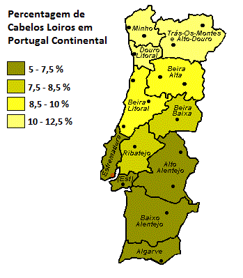 Percentage of only Blonde Hair in Portugal statistics taken from "Pigmentação dos Portugueses" by Anthropologist Eusébio Tamagnini.